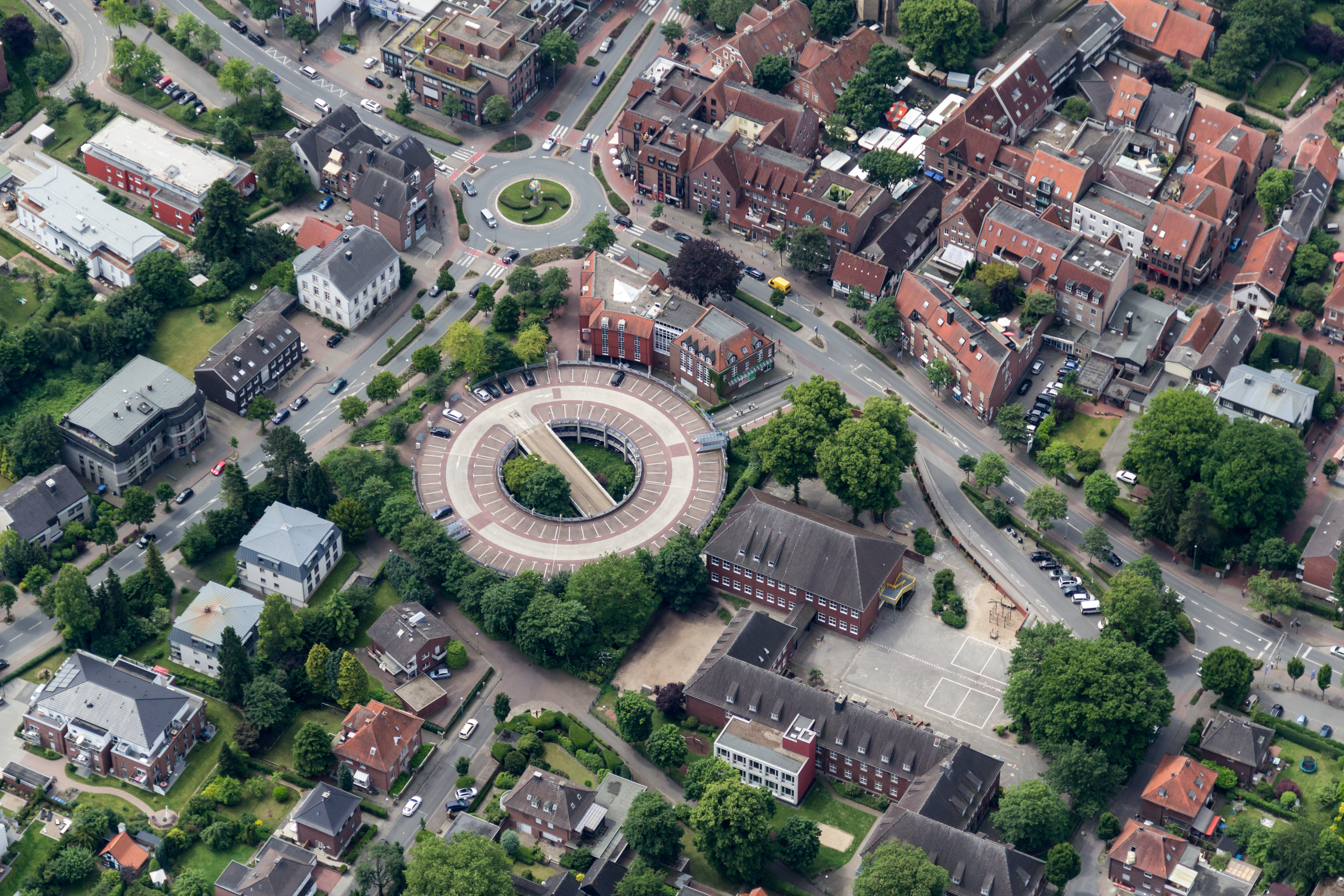 Parkhaus, Greven, North Rhine-Westphalia, Germany